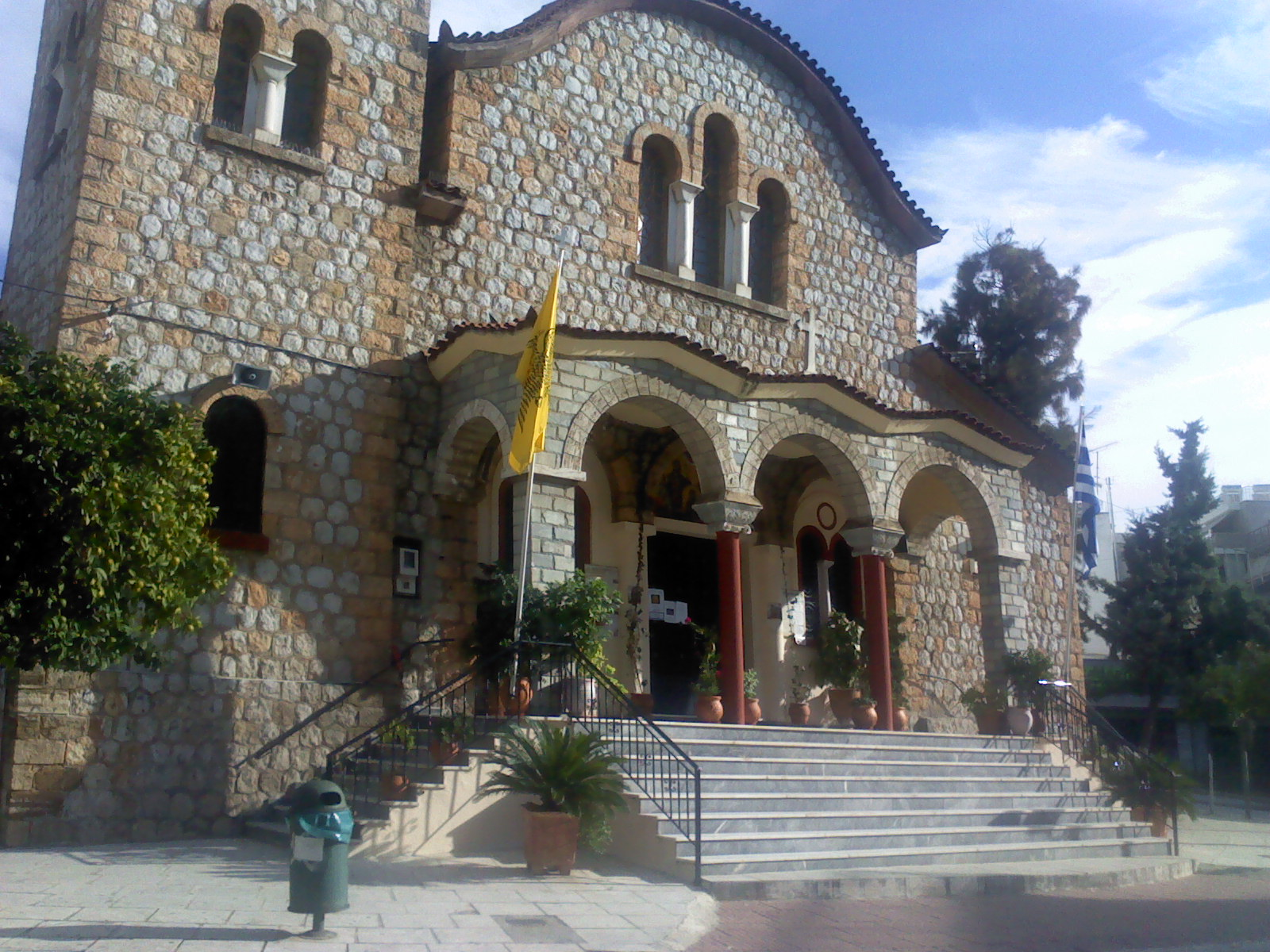 Agios Efstathios Nea Ionia